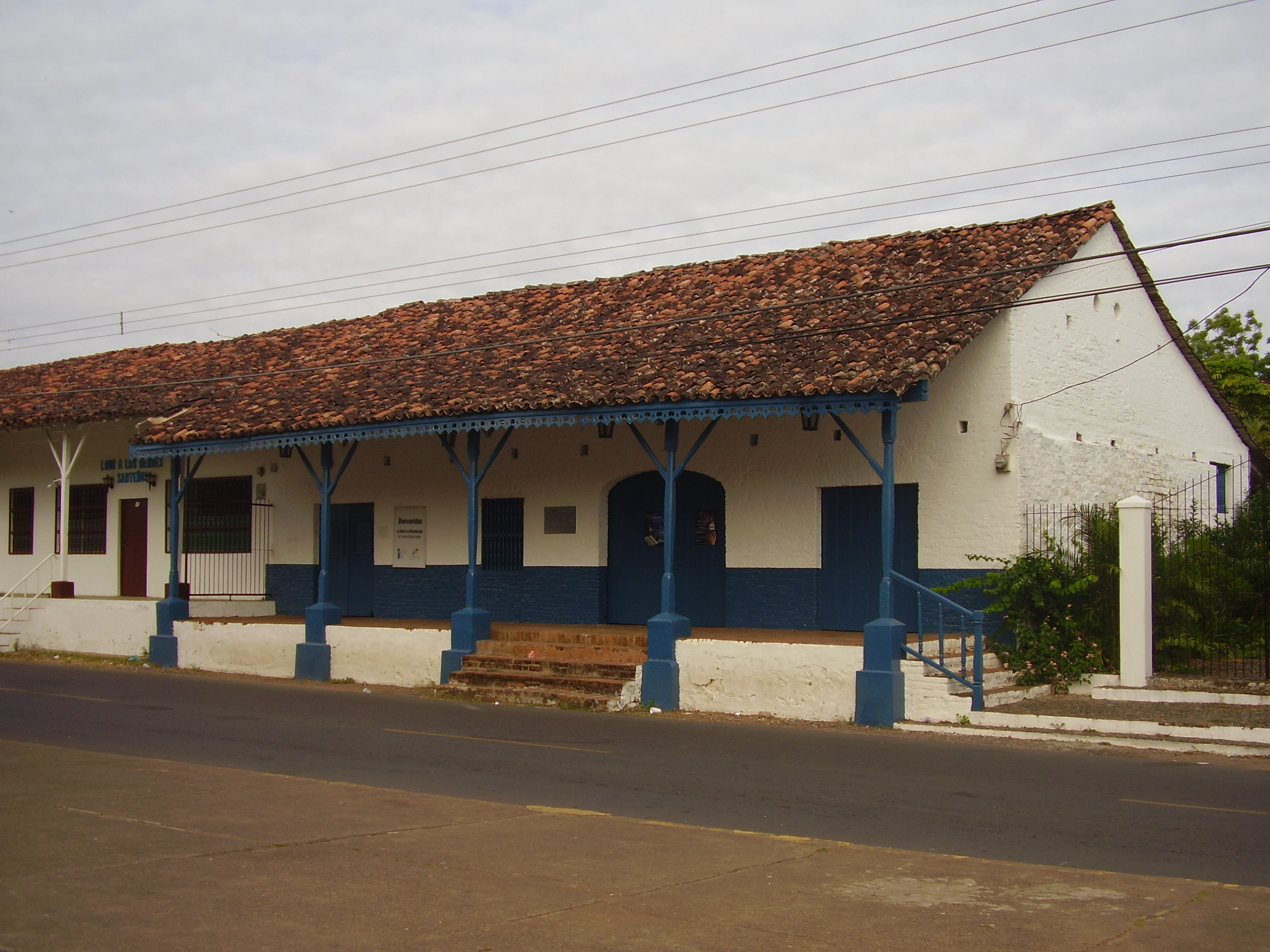 Nacionality Museum in la Villa de los Santos, Panama.